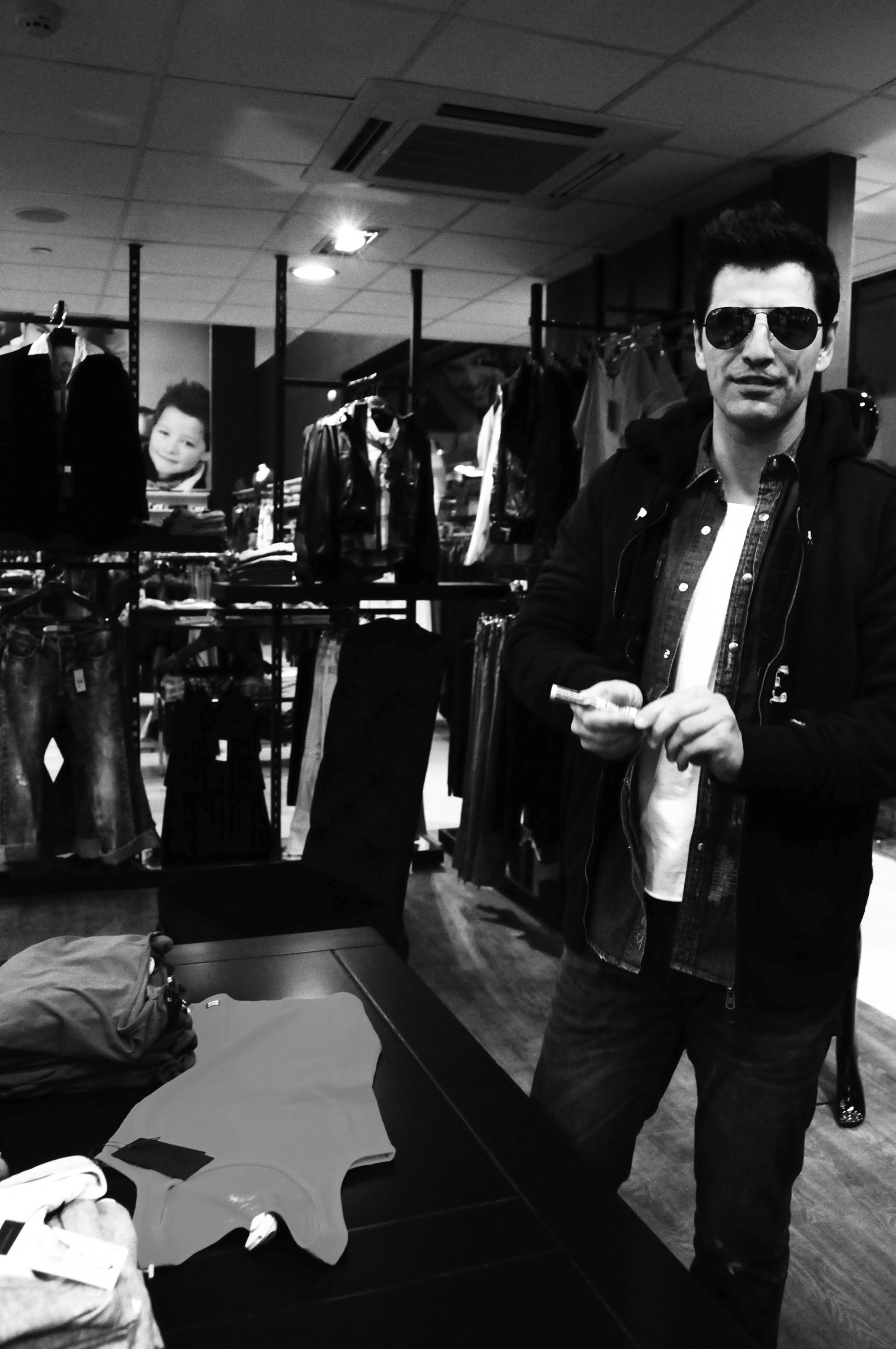 Greek entertainer Sakis Rouvas presenting his Sakis Rouvas Collection clothing line on 25 November 2010 in Limassol, Cyprus at Sprider Stores.